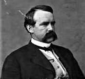 Ebon C. Ingersoll, US Representative from Illinois